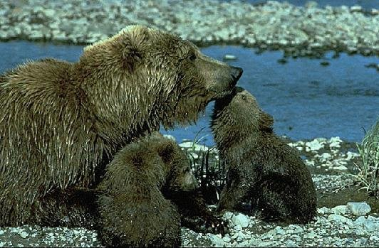 GRIZZLY (BROWN) BEAR, MCNEIL RIVER, ALASKA U.S. Fish and Wildlife Service/Barry Aumiller